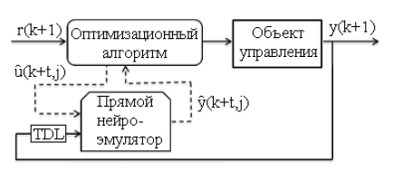 Схема прогнозирующего модельного нейроуправления